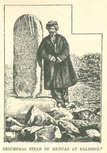 Kelashin Stele, from volume 7 of History of Egypt, Chaldea, Syria, Babylonia, and Assyria (digitized by project Gutenberg)